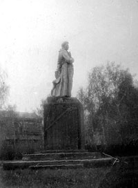 Statue of Stalin (Barnaul)